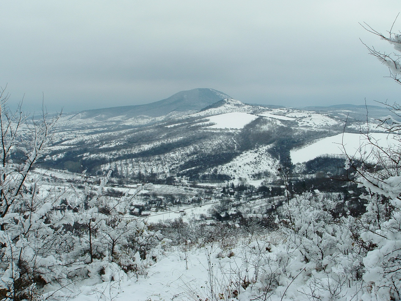 Nagy-Gete Mount in Hungary (foreground Hegyes-kő mount)